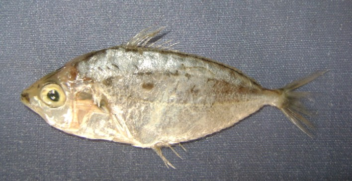 Leiognathus lineolatus from Karachi, Pakistan